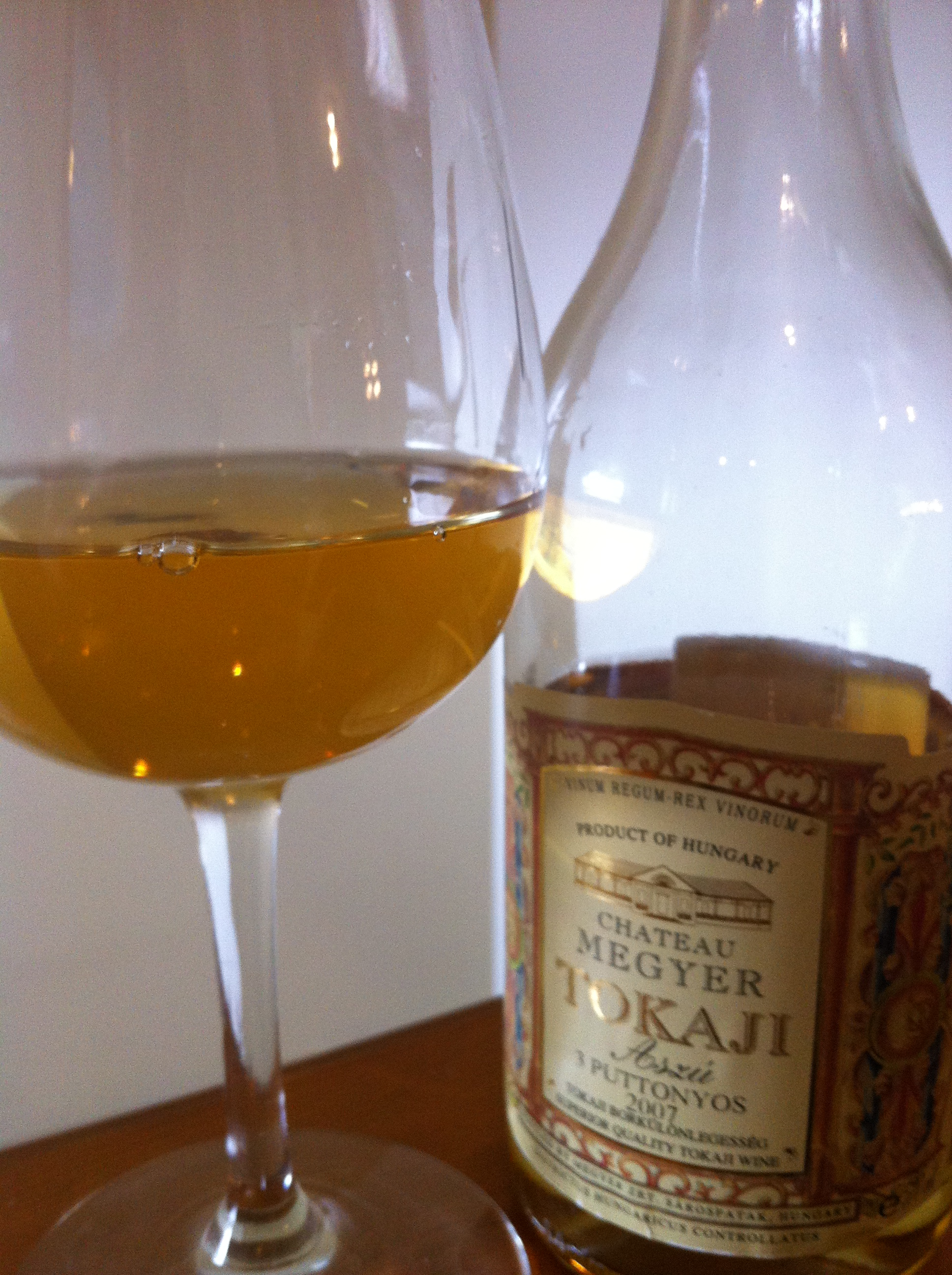 Hungarian dessert wine made from grapes affected by botrytis